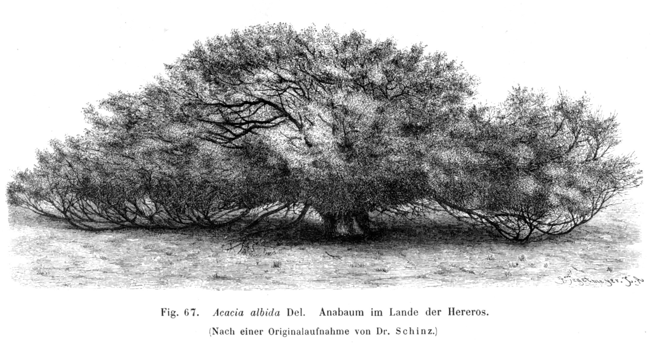 Illustration from book